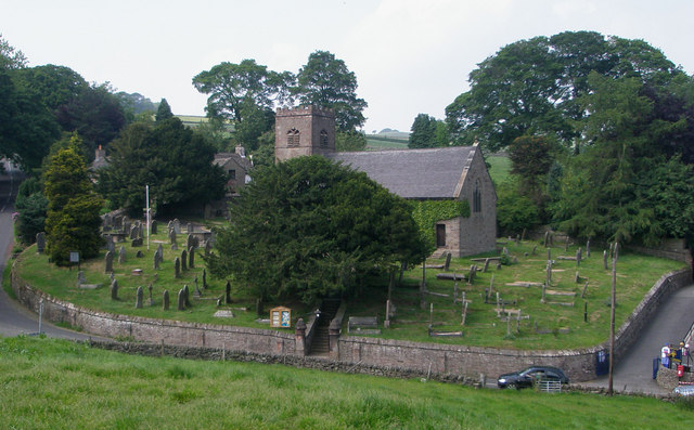 St Michael's parish church, Wincle, Cheshire, seen from the south